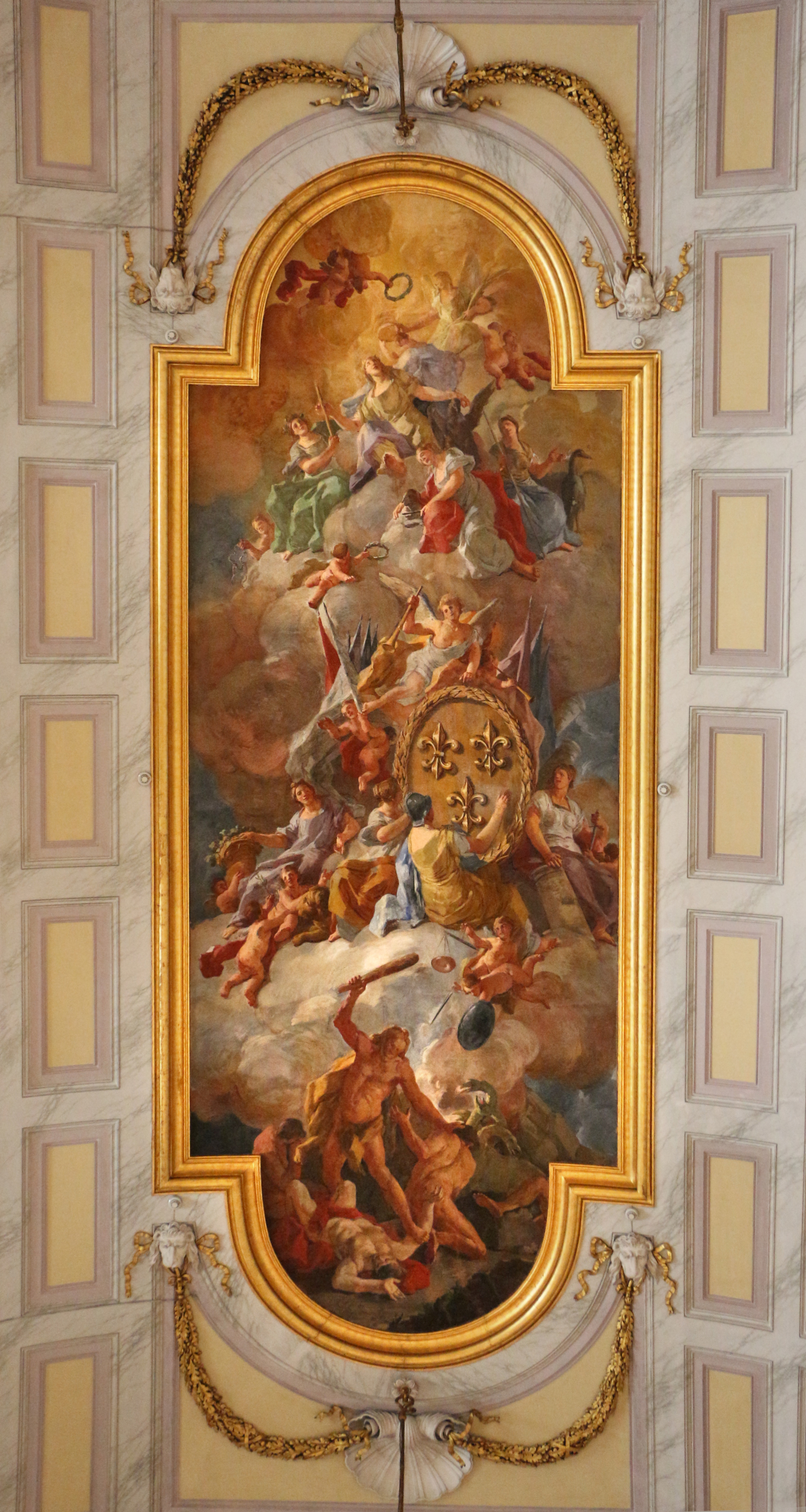 Palace of Caserta